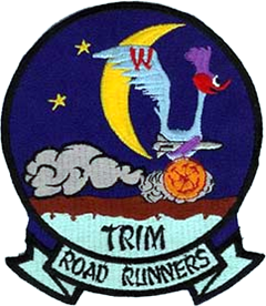 VAH-21 insignia.